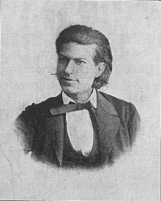 Frederik Algreen-Ussing (1838-1869)